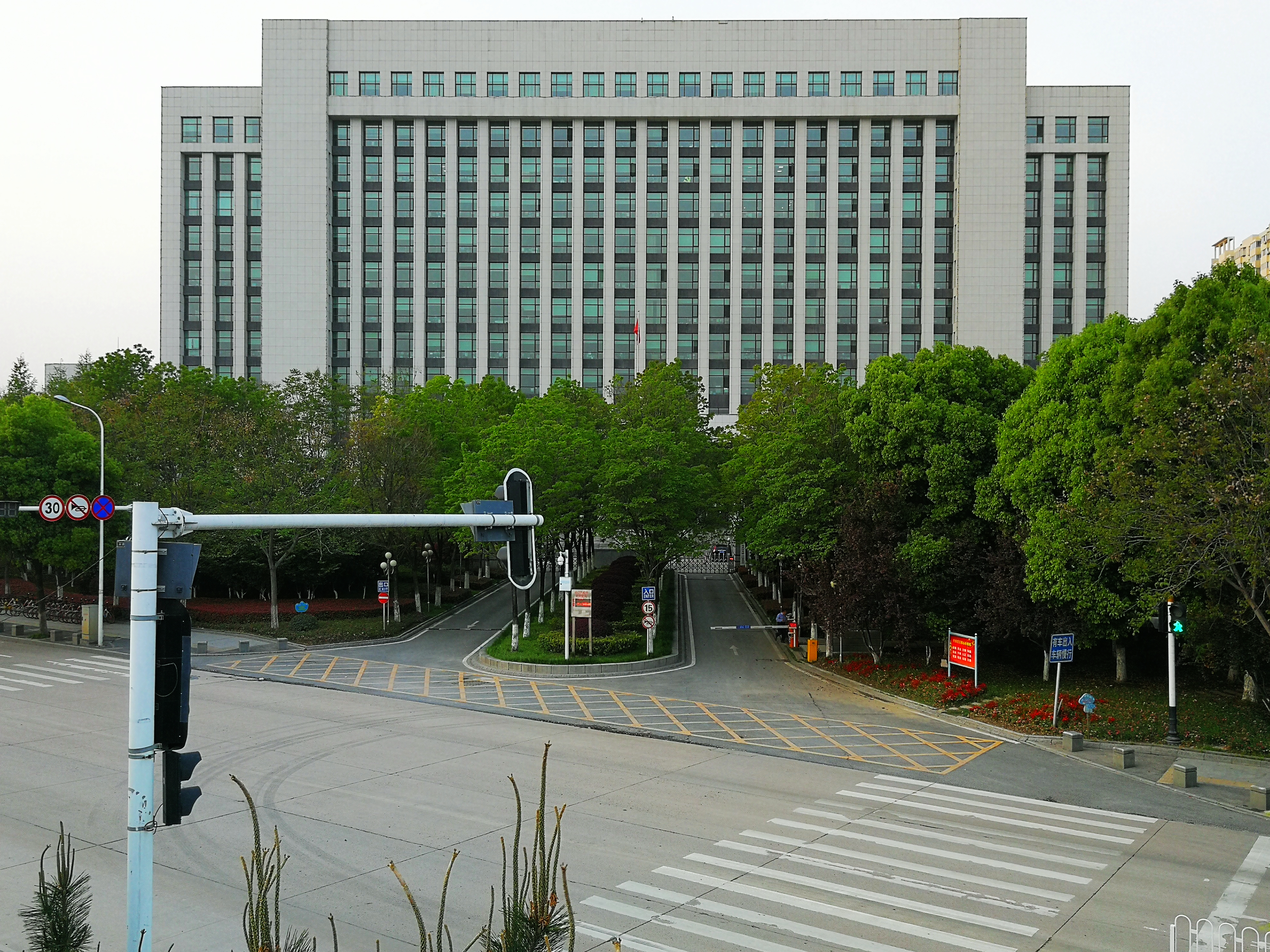 Qiaokou District Government Office Building